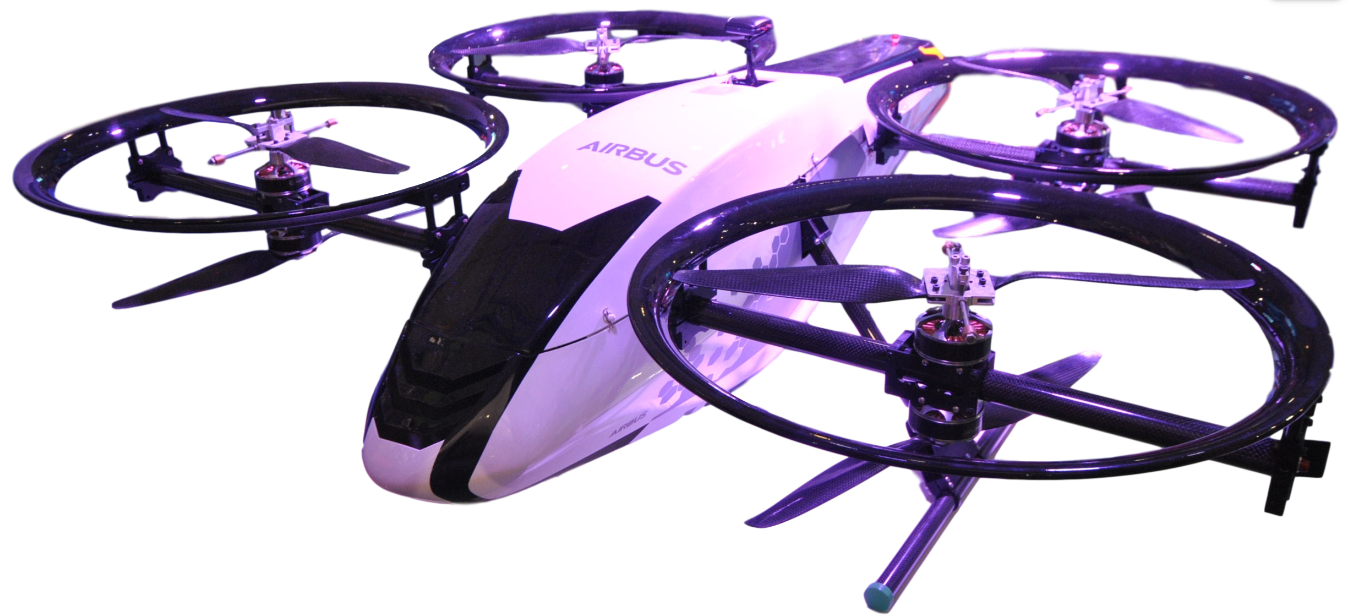 CityAirbus model, background clipped with tok7v6p1anpnim5godh61pqib4ris5veh91ku18q62ckildt7a2